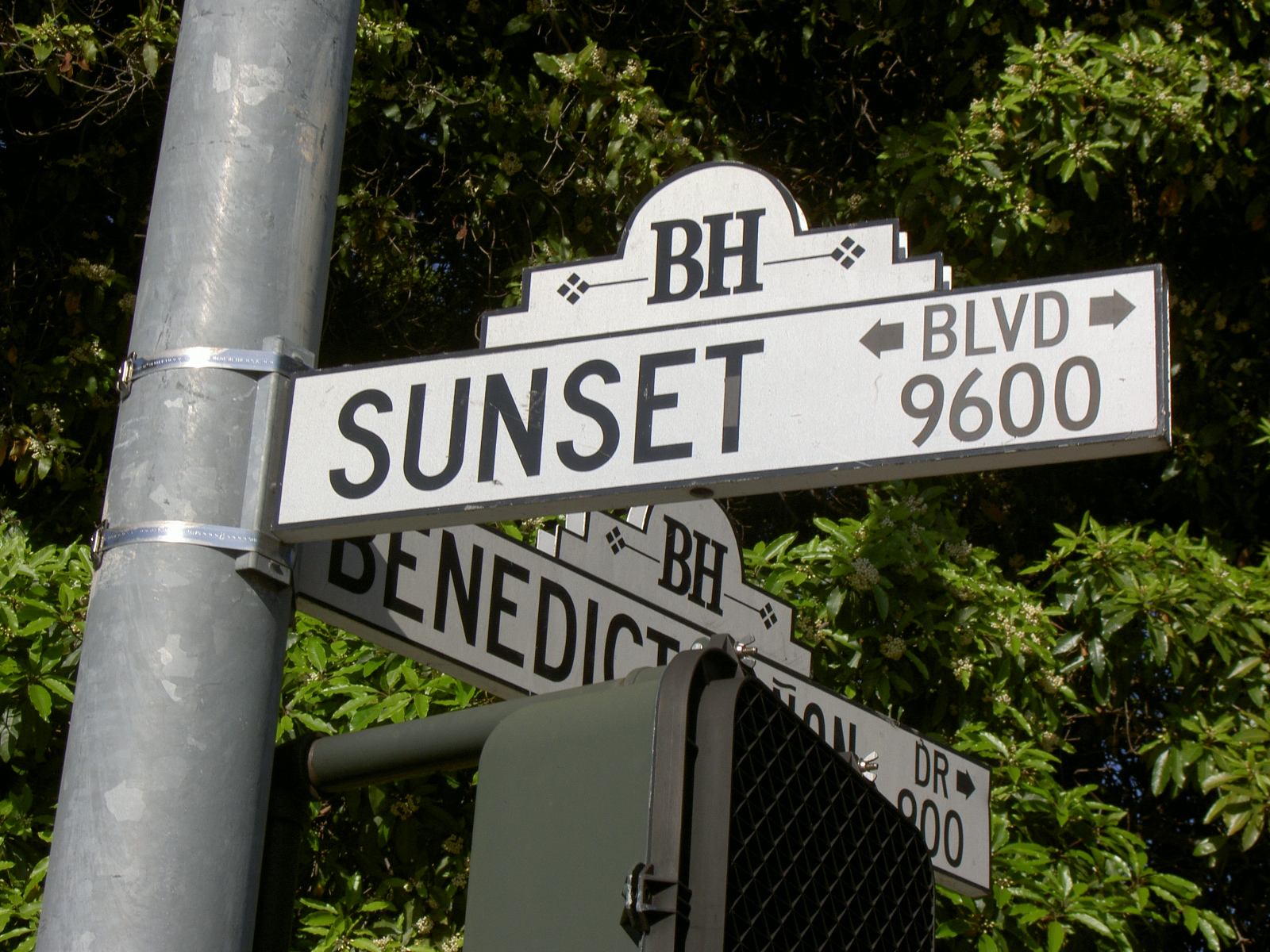 A Sunset Boulevard street-sign, in Beverly Hills, Southern California.